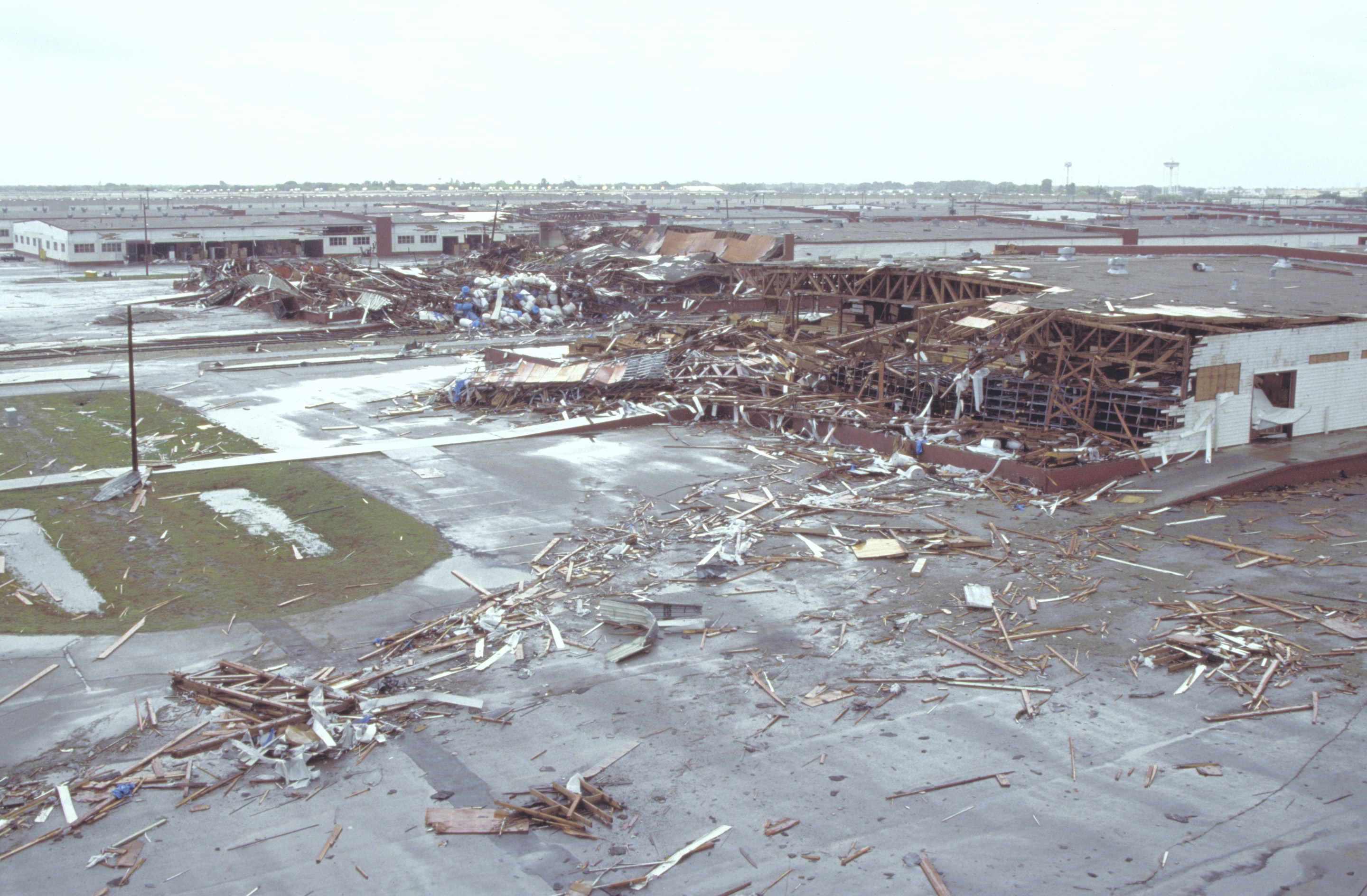 An overview of warehouses destroyed by Hurricane Gilbert at the San Antonio Air Logistics Center.